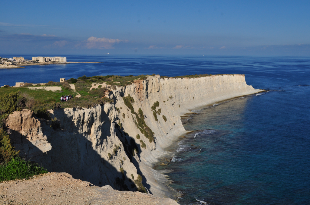 St Thomas Bay, Marsascala